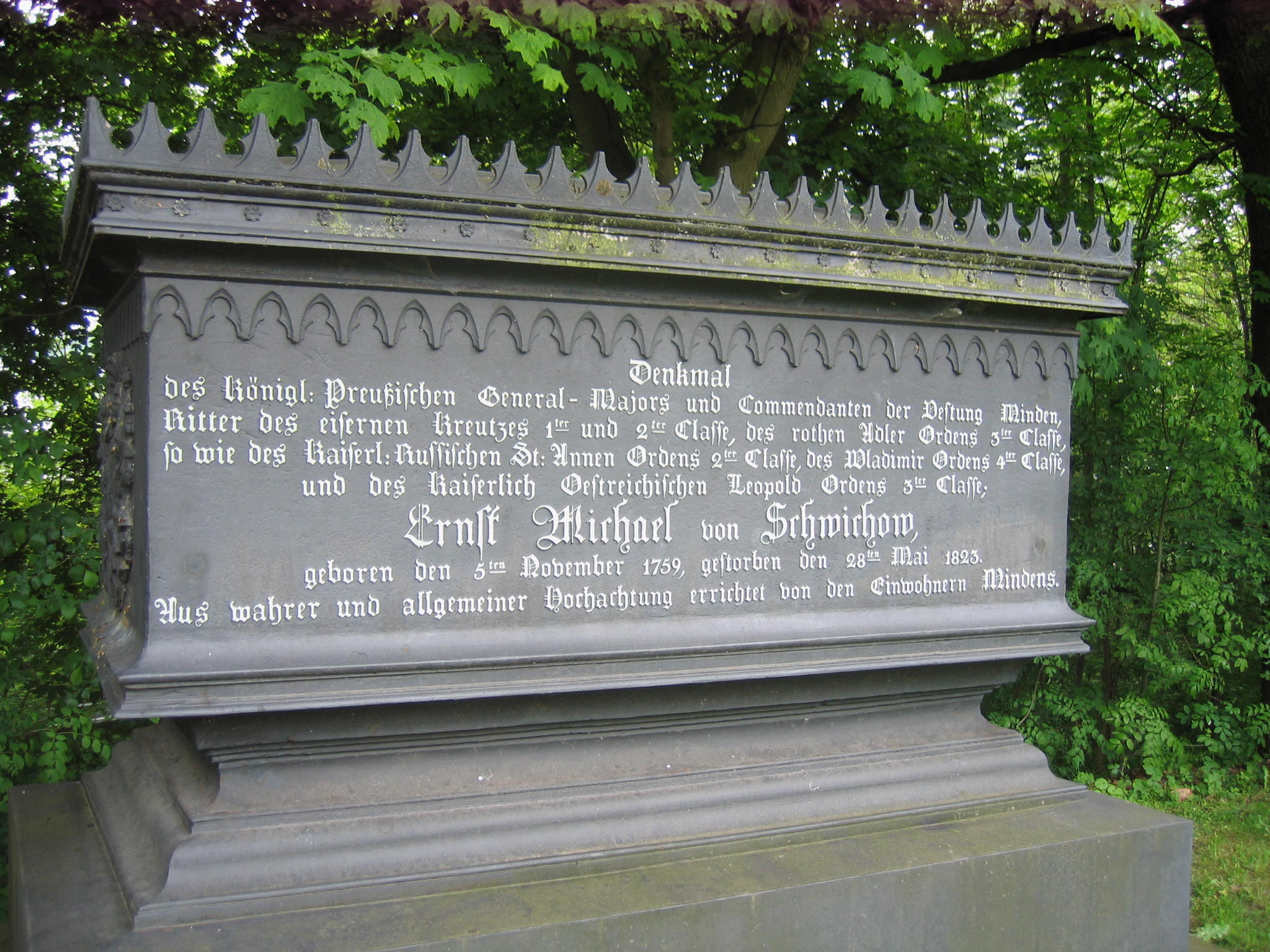 Memorial for Ernst Michael von Schwichow Minden, District of Minden-Lübbecke, North Rhine-Westphalia, Germany.